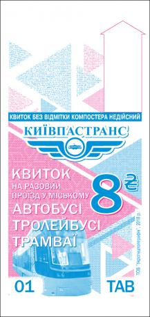 One-ride ticket for Kiev Light Rail, costs 8 UAH. In effect since 2018-07-14.